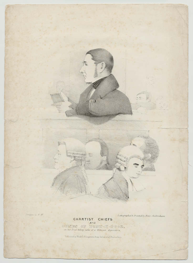 William Jones Chartist of Pont y pool - on trial in 1840 - Gwent Record Office (Item reference: D361.F/P.4.123).